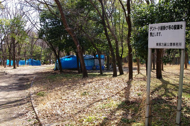 Homeless house, Osaka Castle Park.